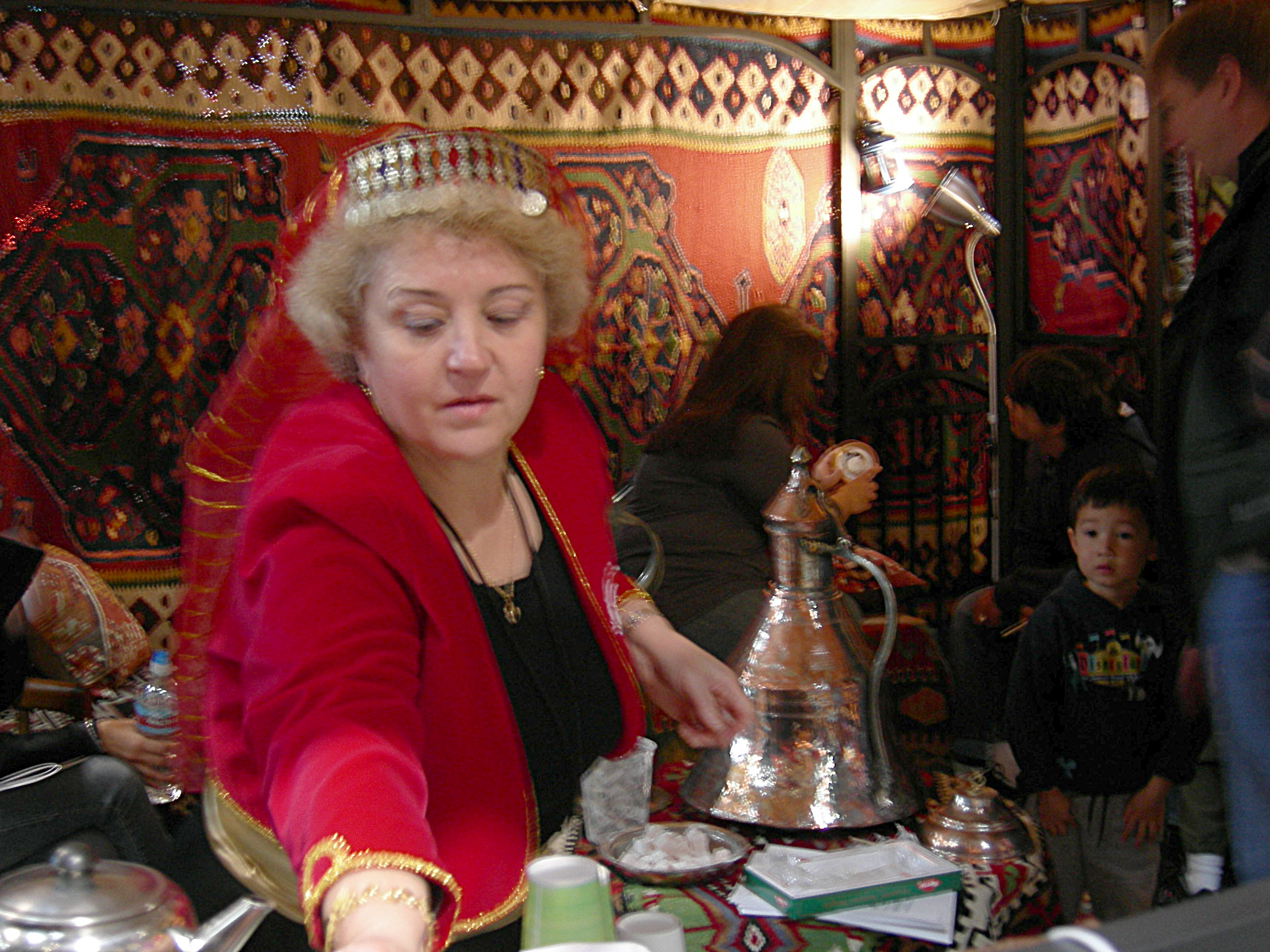 Temporary coffeehouse at Turkfest, Center House, Seattle Center, Seattle, Washington, USA.